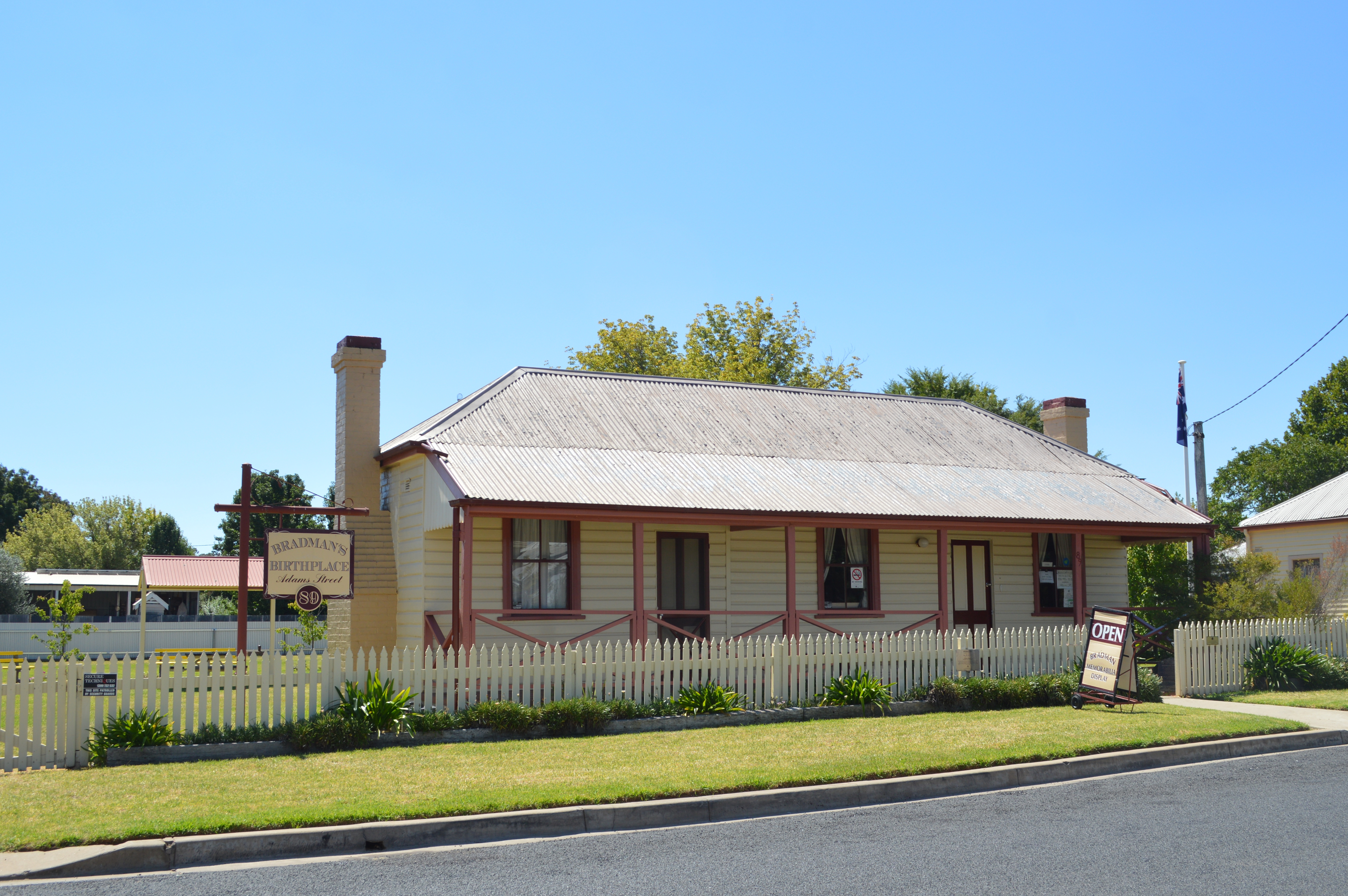 Bradman's Birthplace Museum in Cootamundra, New South Wales